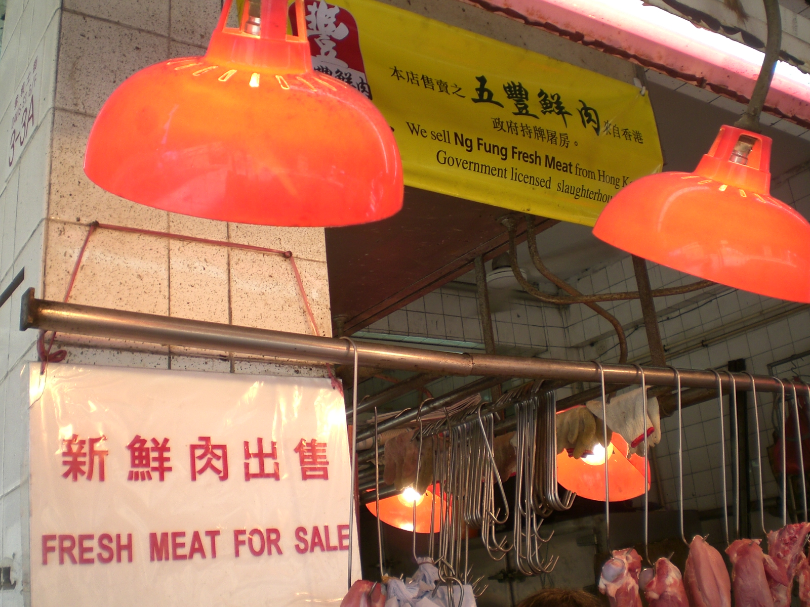 五豐行, 豬肉鋪 Author= Saiyans16